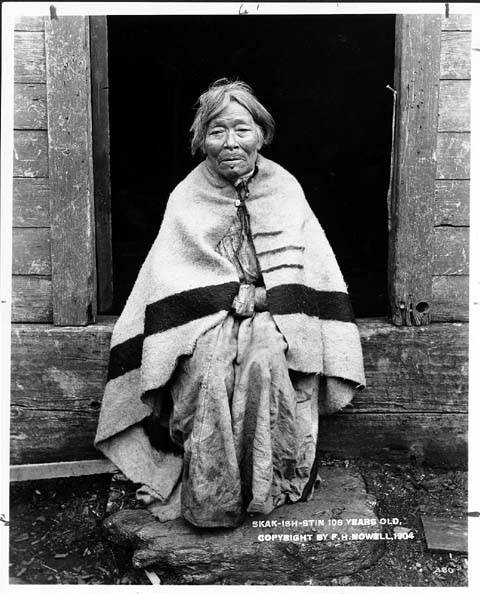 Caption on image: Skak-Ish-Stin, 108 years old. Copyright by F.H. Nowell, 1904. 480 Subjects (LCTGM): Indians of North America--Women--Alaska; Indians of North America--Clothing & dress--Alaska; Blankets; Labrets Subjects (LCSH): Skak-Ish-Stin